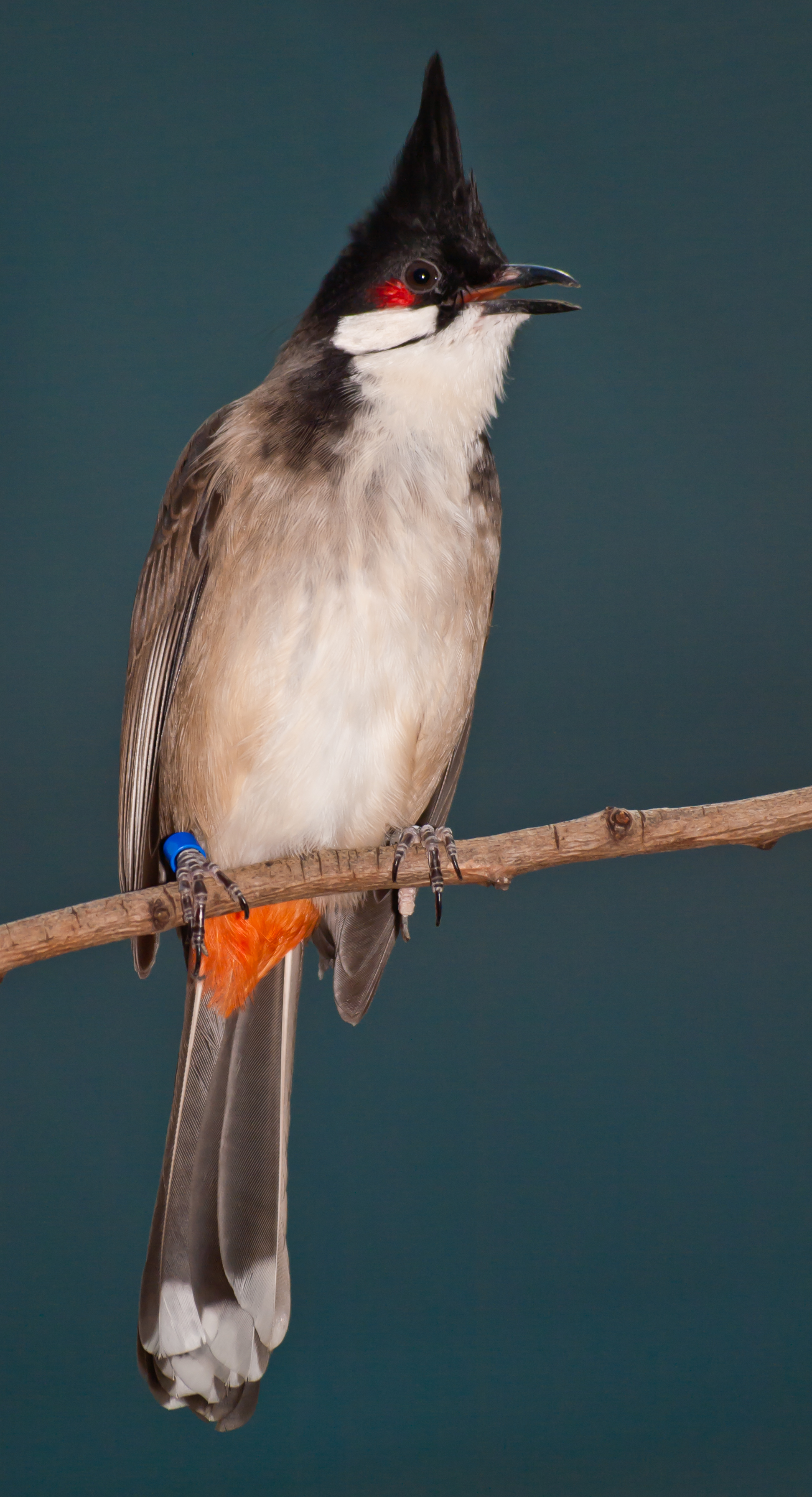 A Red-whiskered Bulbul Pycnonotus jocosus in the Blackburn Pavilion at London Zoo, England.